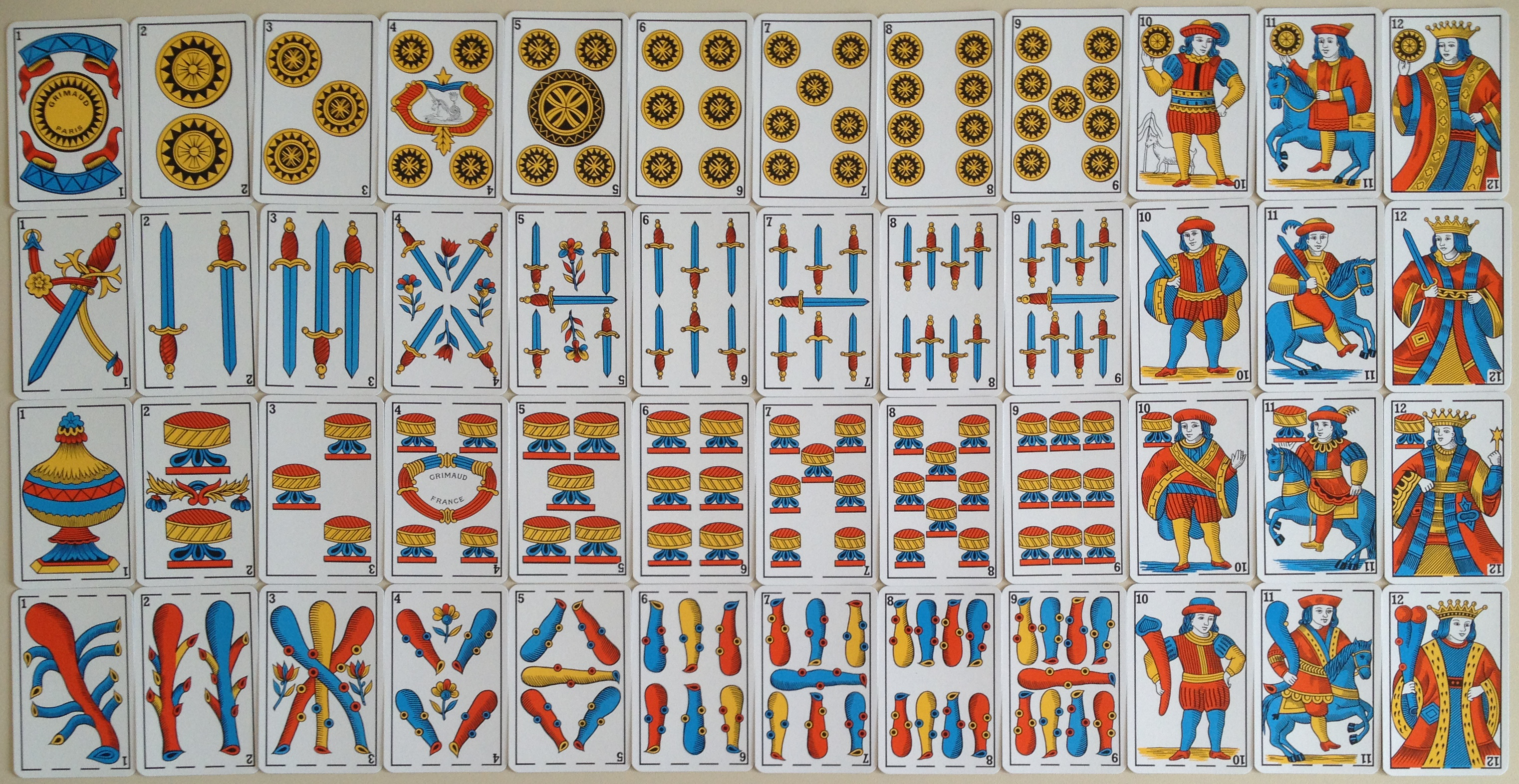 The Spanish National pattern, also known as the Old Catalan pattern, is a playing card design used since the 16th or 17th century. It spread from Catalonia and Aragon to the rest of Spain in the 18th century before ceasing production in its homeland in the early 19th century. This pattern is still used in Algeria, Morocco, and Ecuador. The ones in the photo were made by Grimaud, a division of ::France Cartes|France Cartes , a subsidiary of Cartamundi.